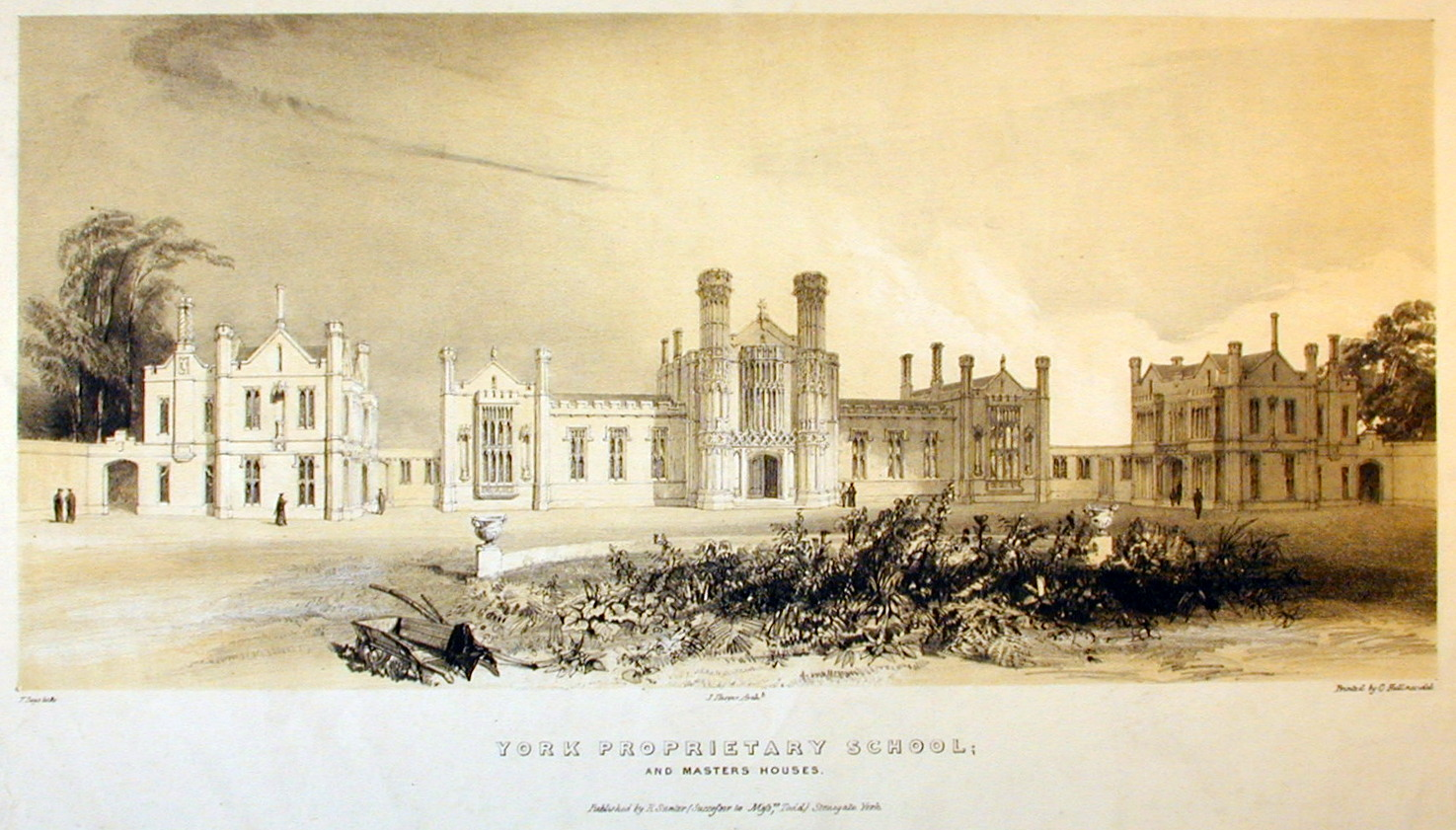 A lithograph of the front of Saint Peter's School, York. A large flower bed sits in the foreground, with a wheelbarrow in the left foreground.